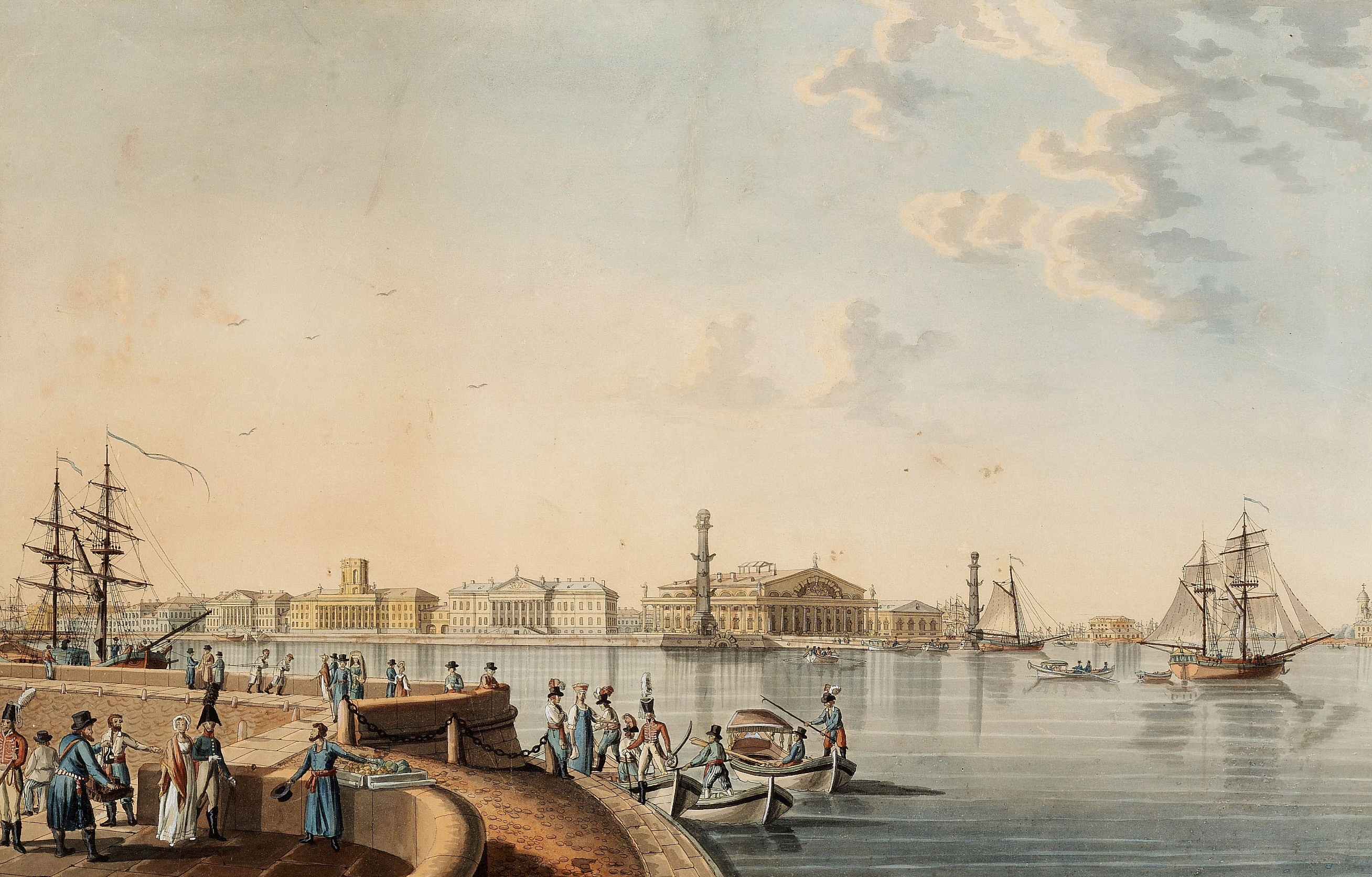 In the foreground: the granite embankment of the Neva River (1763-1780) at the old Hermitage. In the background: The Spit of Vasilyevsky Island, the StockExchange (1805-1810), and the two Rostral Columns (1805-1810) by architect Thomas de Tomon. Theembankment was constructed between 1804 and thesecond decade of the 19th century. Blueprints for the uncompleted section of the spit were used when creating the composition. The building on the left is the edifice of the Russian Academy of Science, designed by architect A.D. Zaharov, which was never built.